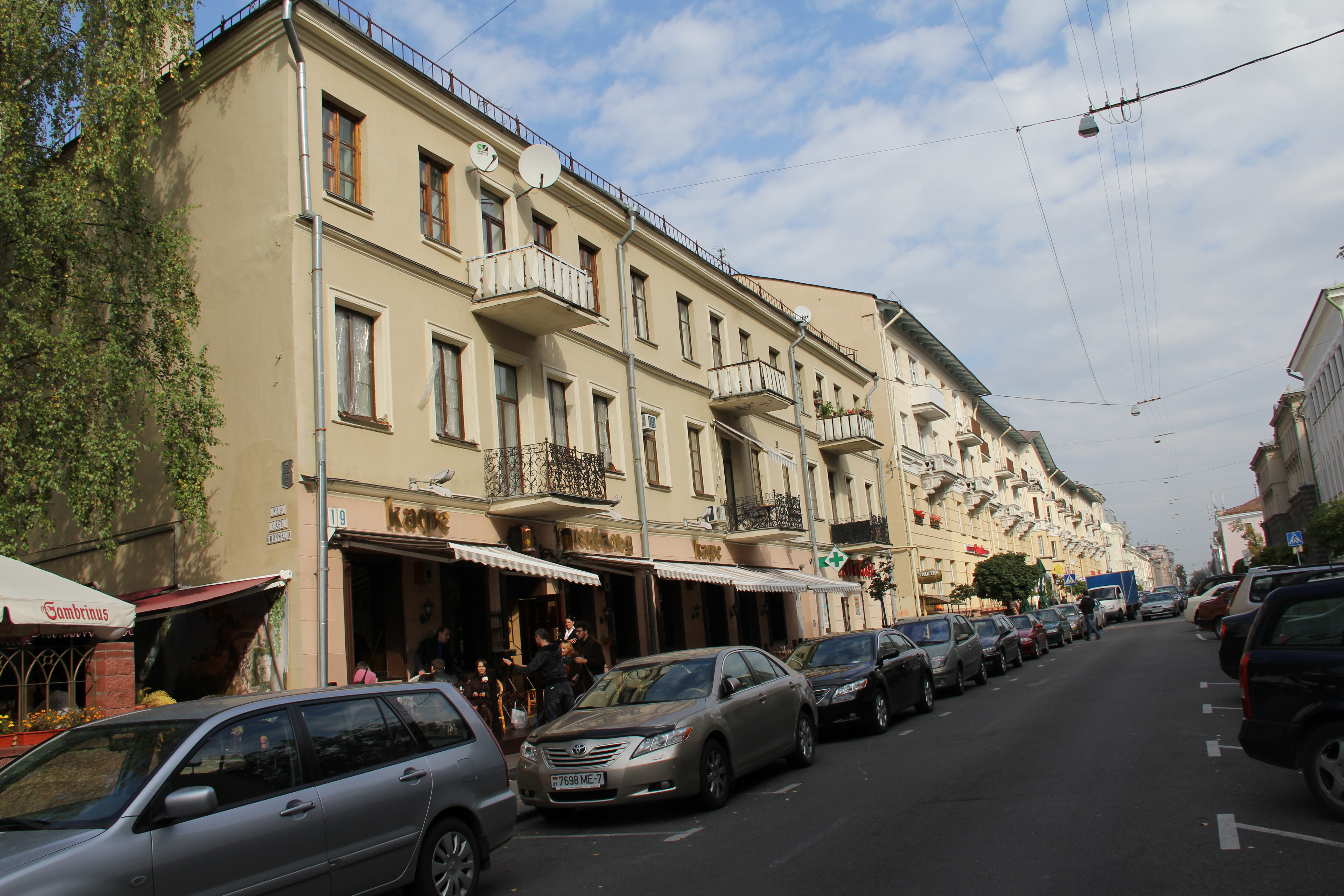 Беларуская (тарашкевіца): Будынак. г. Менск This is a photo of Belarusian heritage monument. Reference number: 713Г000122 ( WLM)